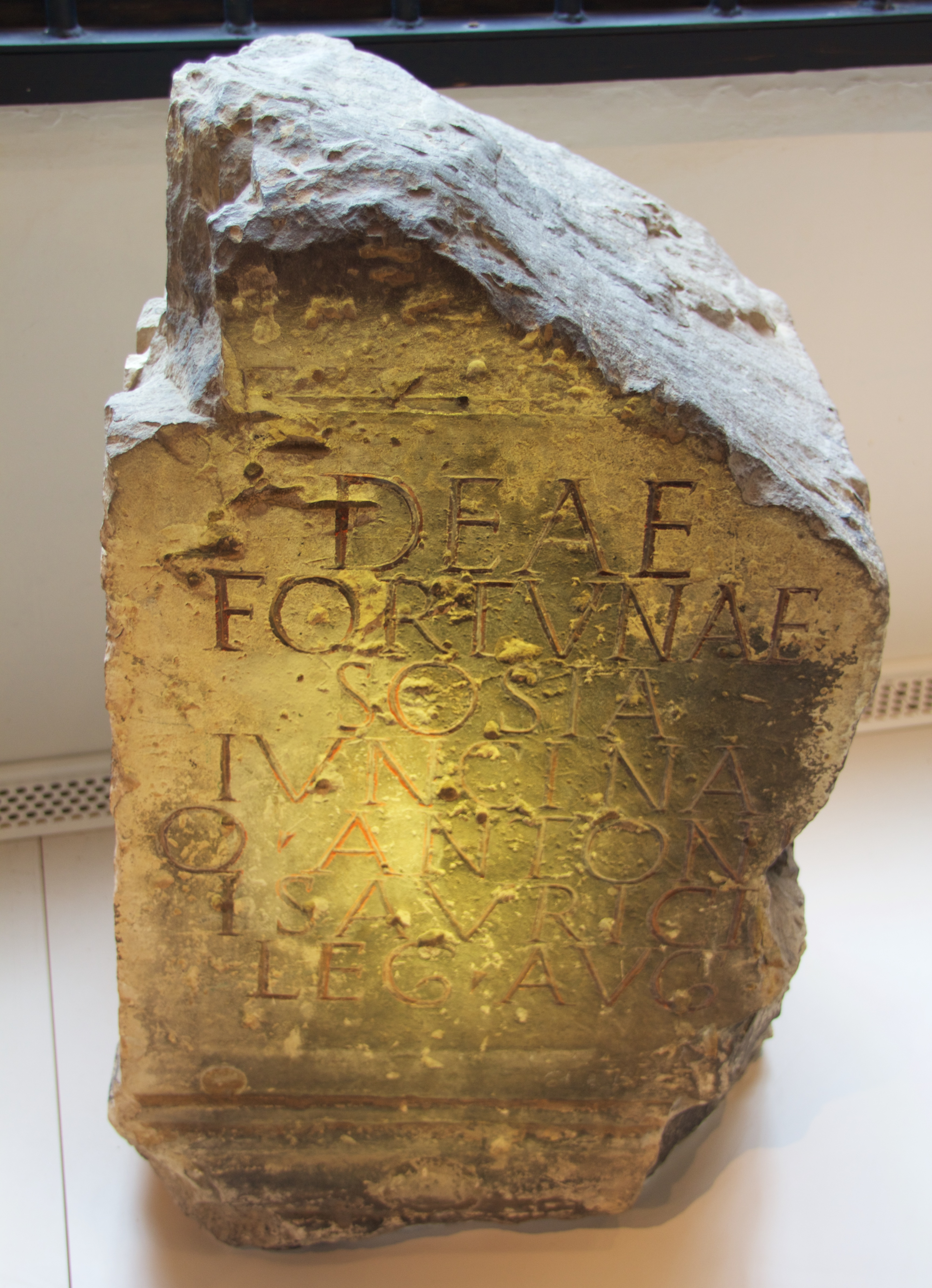 Statue in honour of Fortuna. YORYM: 2007.6194. Old Railway Station, York. "DEAE FORTVNAE SOSIA IVNCINA Q(VINTI) ANTONI ISAVRICI LEG(ATI) AVG(VSTI). "To the goddess Fortune, Sosia luncina wife of Quintus Antonius Isauricus, Imperial legate." At the Yorkshire Museum, York.